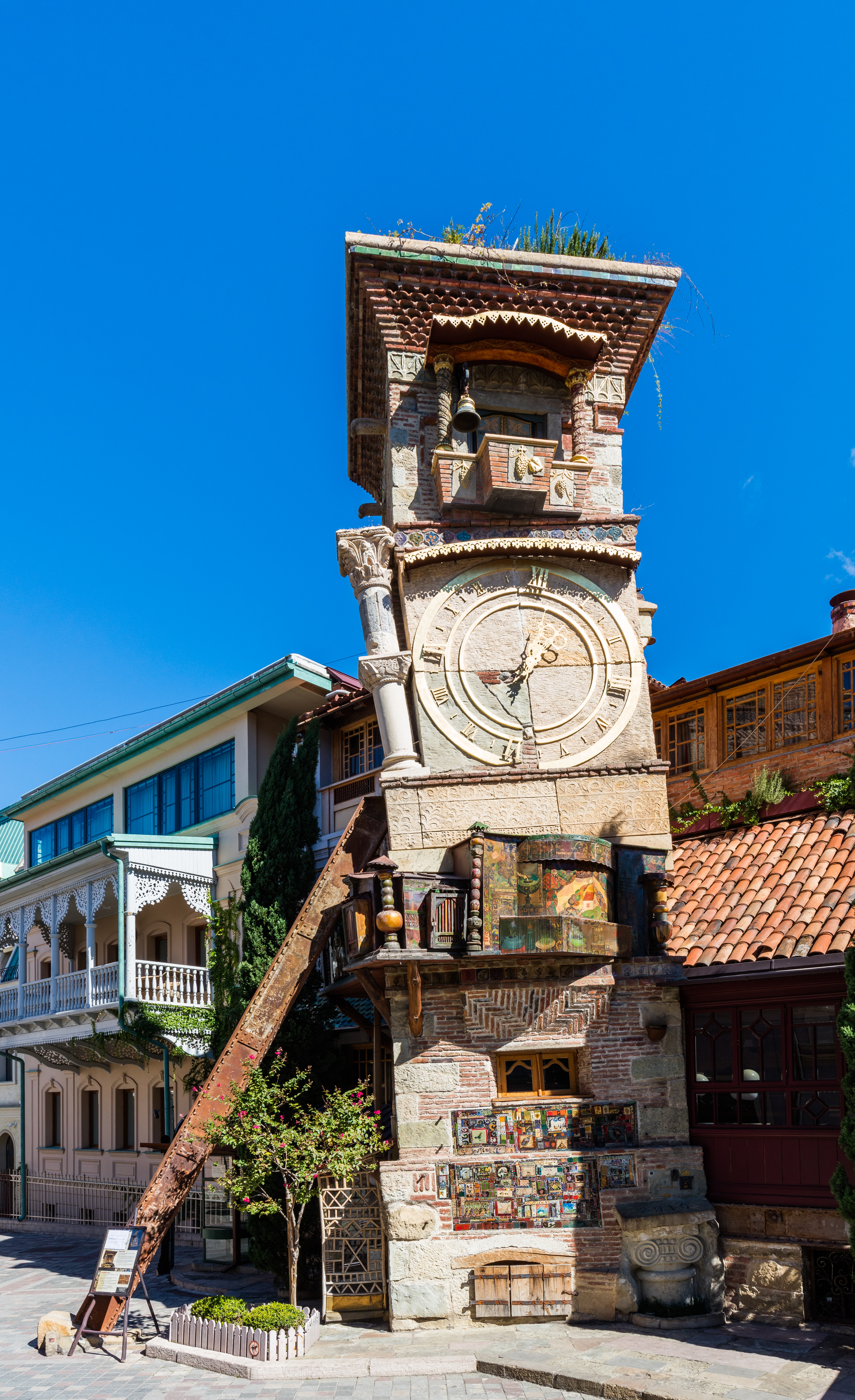 Rezo Gabriadze Marionette Theater, Tbilisi, Georgia